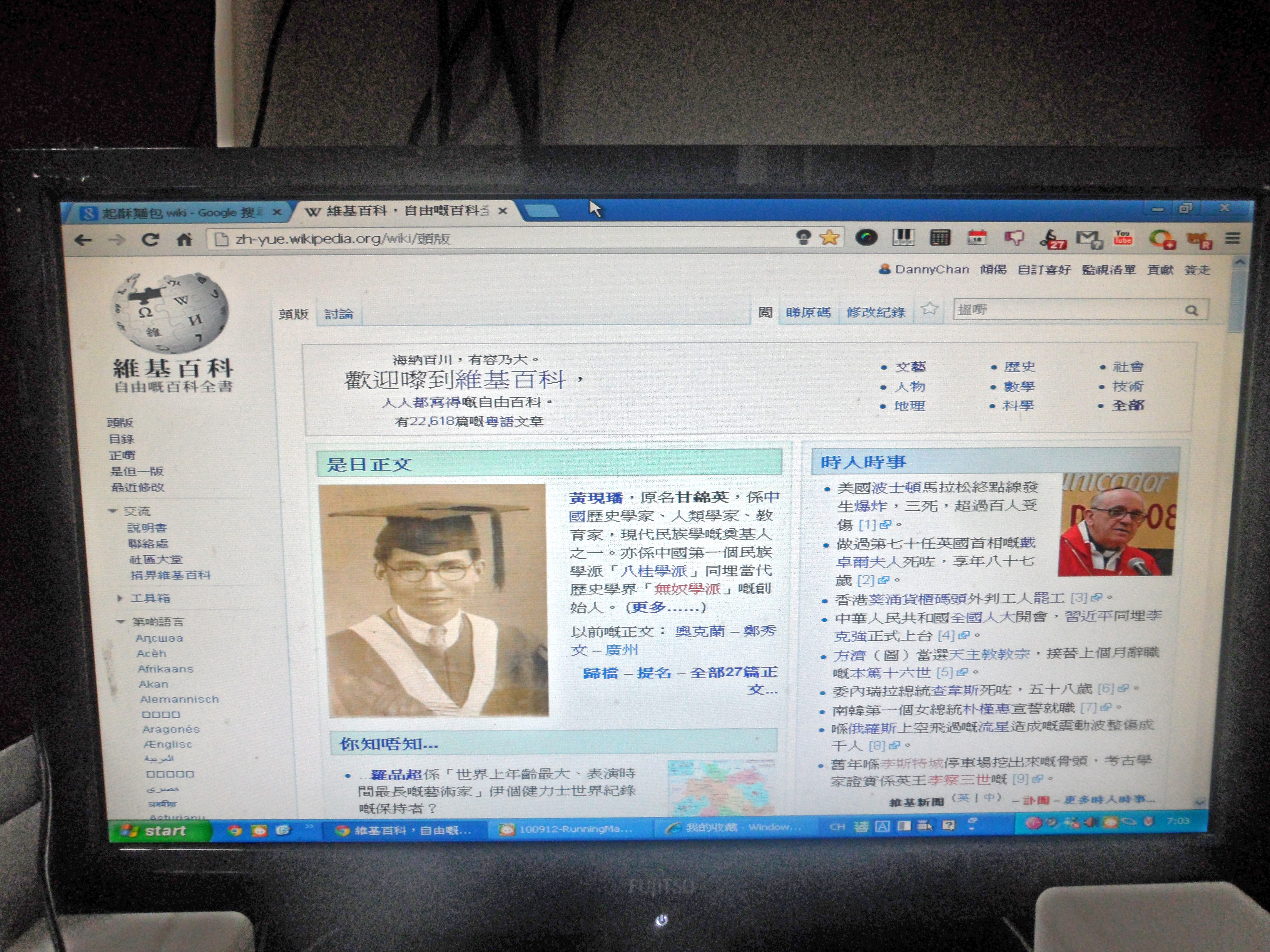 Cantonese Wikipedia main page on Fujitsu LCD computer monitor.